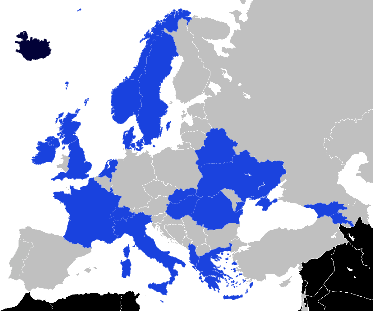 Countries from which the Icelandic team KR, Knattspyrnufélag Reykjavíkur, has had an opponent in a European tournament